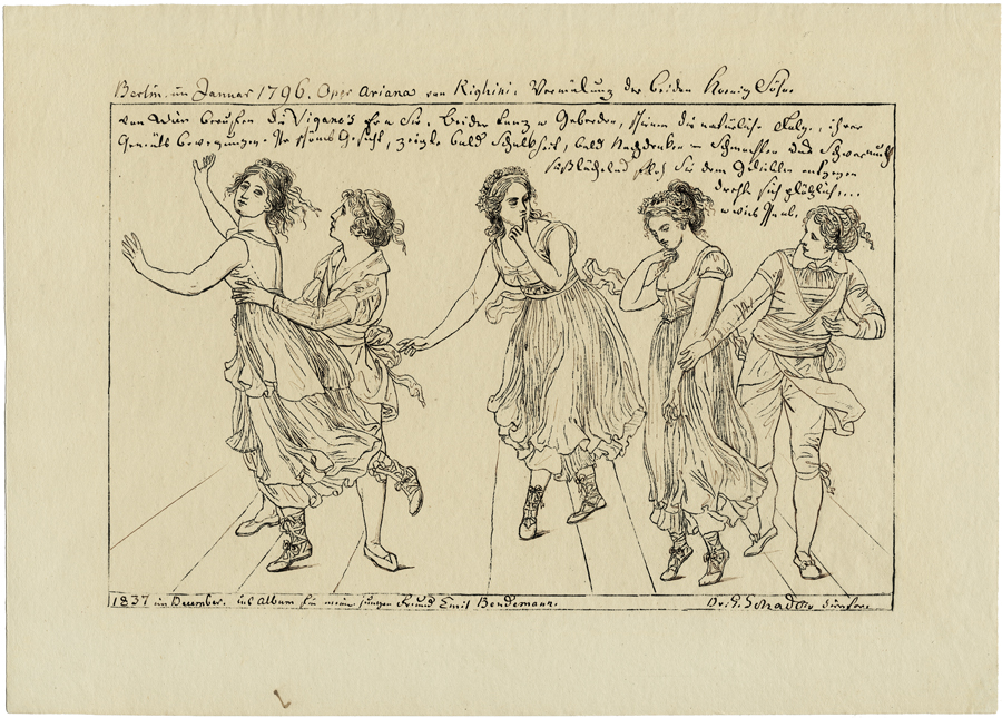 The Vigano Dancing Couple. Zincography on ivory-coloured wove paper, reworked with pen and sepia. 20.2 x 31.5 cm.